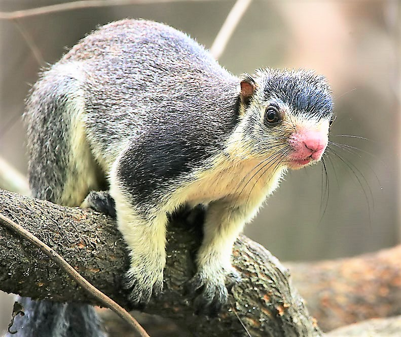 This is the Highland subspecies of Giant Squirrel which has denser fur to cope with the cold.